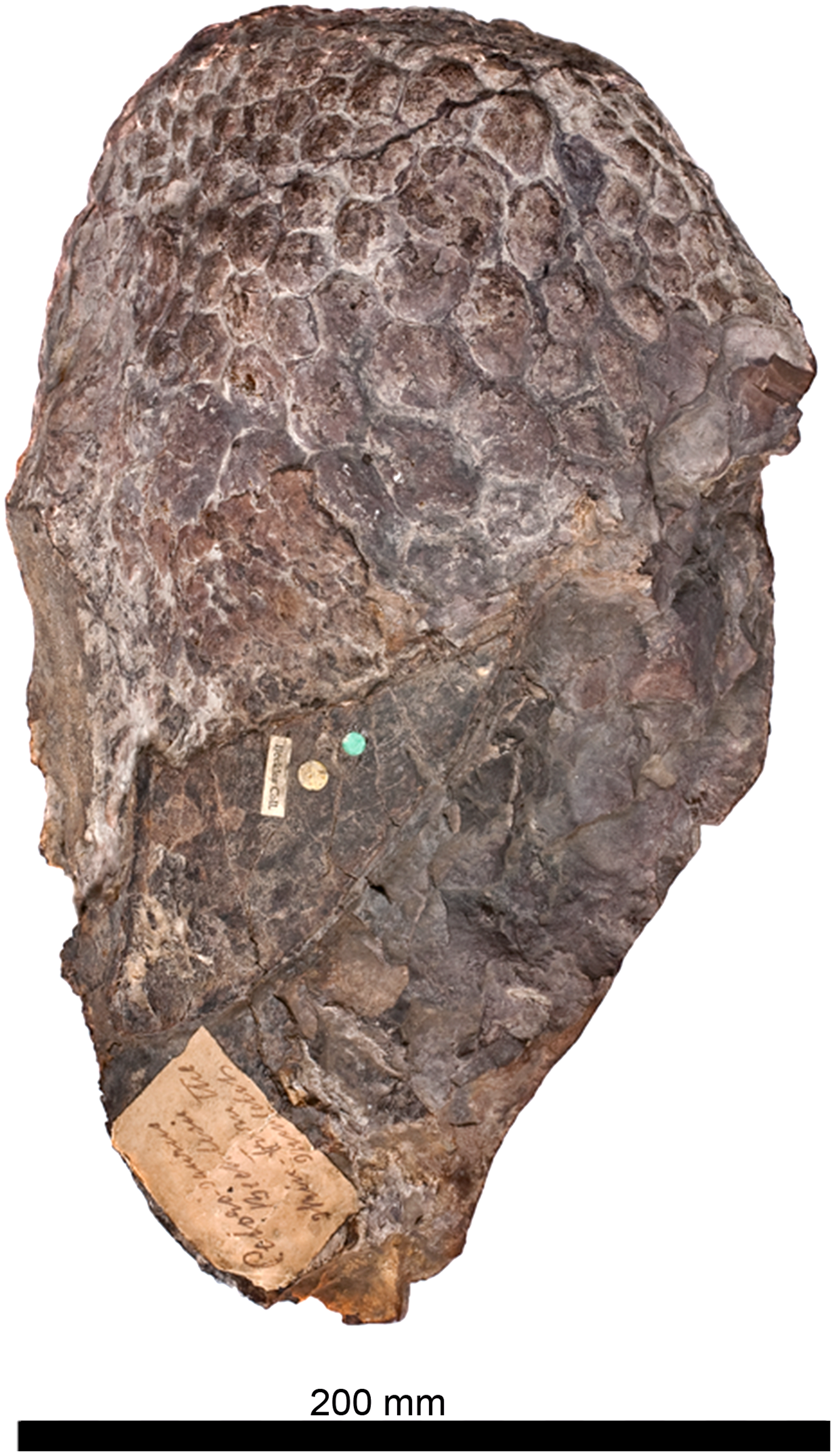 The skin impression of Haestasaurus becklesii (NHMUK R1868).